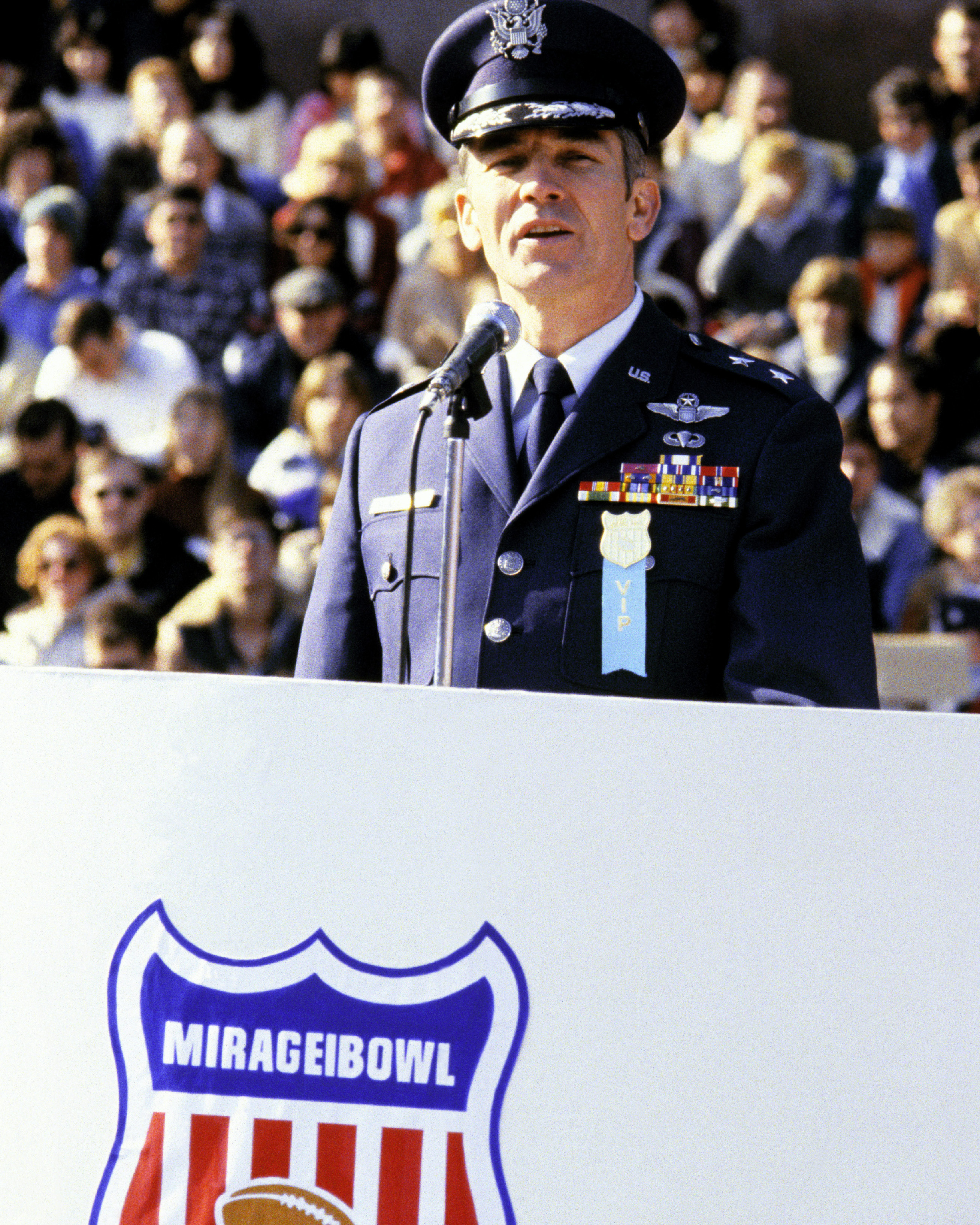 Air Force Academy Superintendent MGEN Robert E. Kelley speaks prior to the start of the Mirage Bowl football game against San Diego State University.